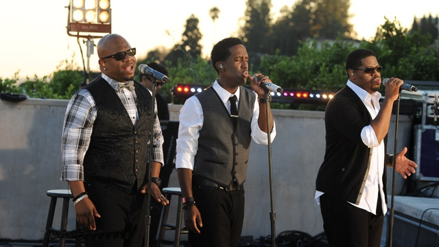 Boyz II Men on Walmart Soundcheck.